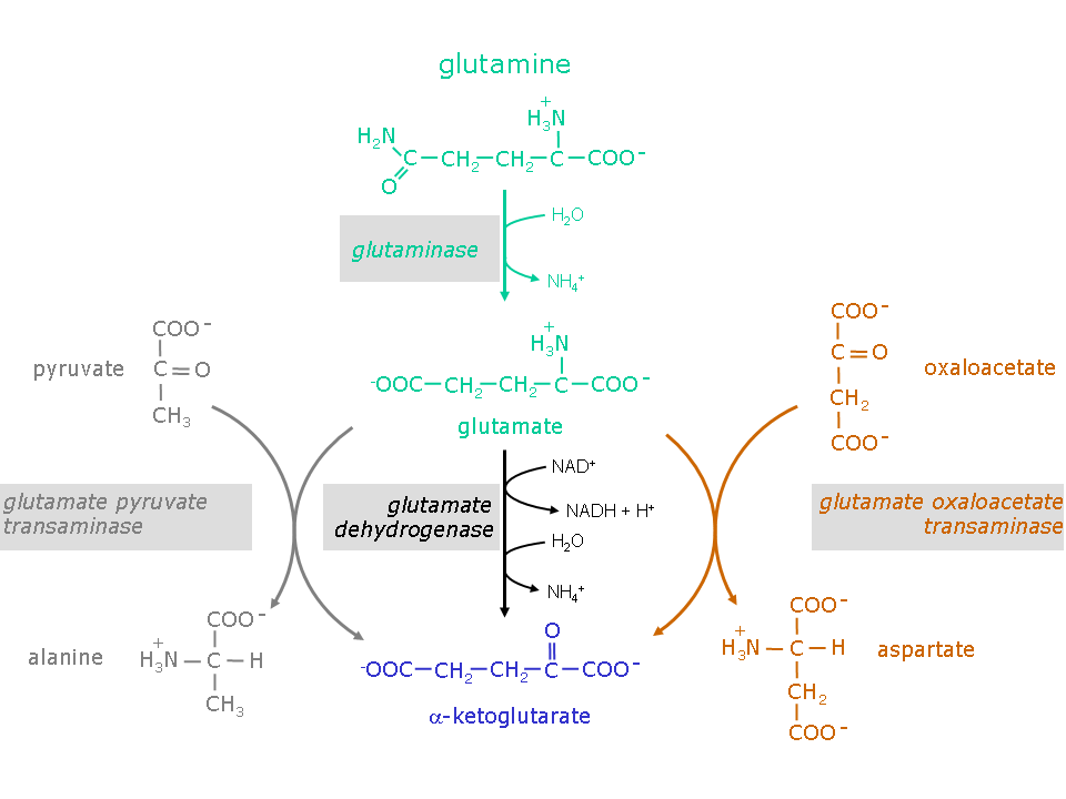 Reaction steps from glutamine to alpha-ketoglutarate